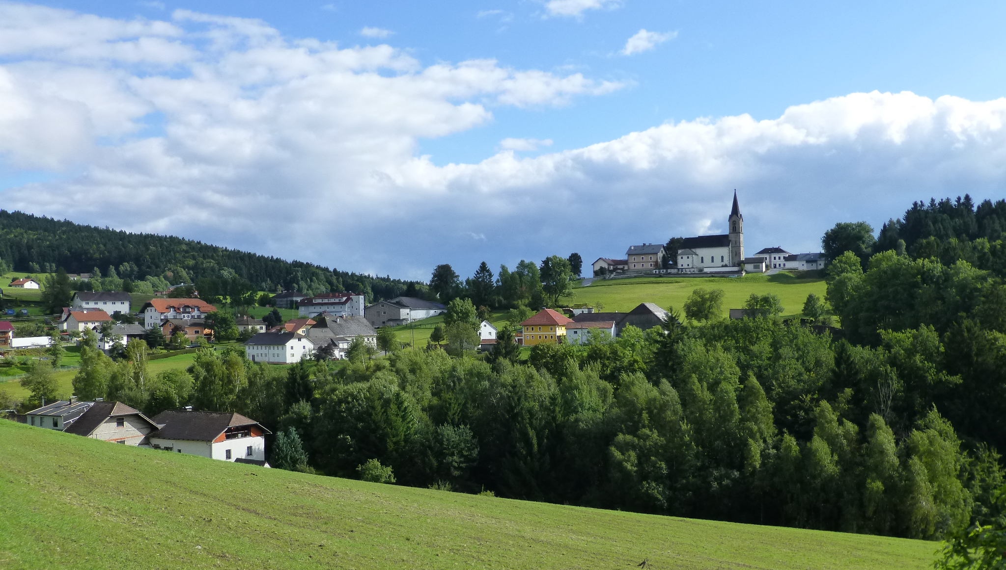 The Schwarzenberg am Böhmerwald Village, Upper Austria, close to Bavaria, as viewed from road 127.